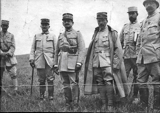 VERDUN THE 65TH REGIMENT OF INFANTRY COLONEL DE VIAL COMMANDING THE REGIMENT GENERAL MANGIN